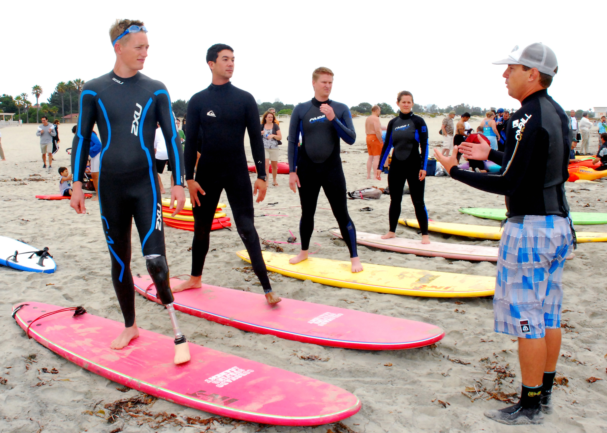 SAN DIEGO (July 30, 2009) Steven McManus, right, from Coronado Surfing Academy, teaches basic surfing to amputee participants and physical therapists from the 2009 Military Amputee Advanced Skills Training (MAAST) workshop. Naval Medical Center San Diego hosted the MAAST workshop to provide prosthetic fitting, therapeutic training, and education to rehabilitation teams in order to elevate the physical performance of injured service members. (U.S. Navy photo by Mass Communication Specialist 3rd Class Jake Berenguer/Released)